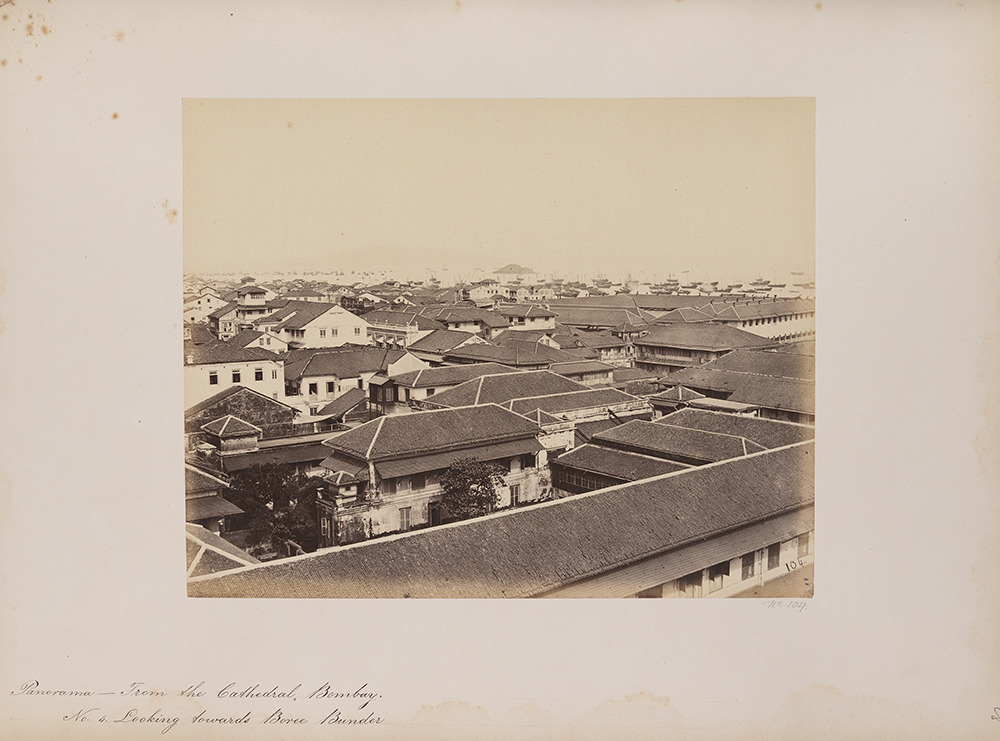 Title: Panorama - From the Cathedral, Bombay. No. 4. Looking towards Boree Bunder Alternate Title: [Panorama - From the Cathedral, Bombay. No. 4. Looking towards Bori Bunder] Creator: Johnson, William; Henderson, William [attributed] Date: ca. 1855-1862 Series: Photographs of Western India. Volume II. Scenery, Public Buildings, &c. Part of: Photographs of Western India Place: Mumbai, Maharashtra, India Description: Our research indicates that Cathedral Bombay refers to St. Thomas Cathedral, an historic Anglican church in Bombay (present-day Mumbai). The building pictured in the photograph is Bombay Town Hall. Physical Description: 1 photographic print: part of 1 volume (100 albumen prints); 20 x 26 cm on 35 x 42 cm mount File: vault_ag2002_1407x_2_104_panorama_opt.jpg Rights: Please cite Southern Methodist University, Central University Libraries, DeGolyer Library when using this image file. A high-quality version of this file may be obtained for a fee by contacting . For more information and to view the image in high resolution, see: View Europe, India, and Asia: Photographs, Manuscripts, and Imprints